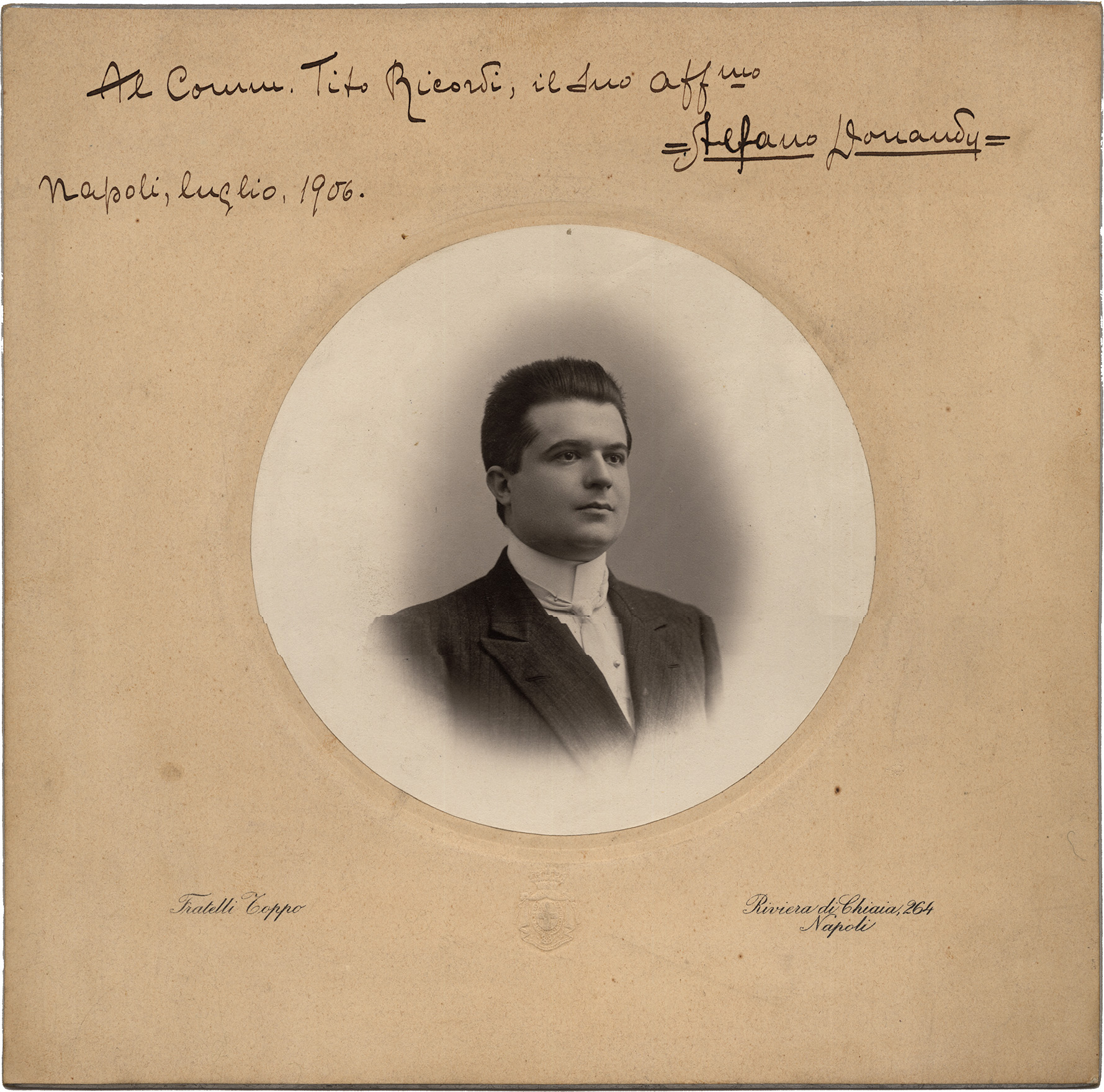 Portrait of Stefano Donaudy, composer (1879-1925). Photo by F.lli Toppo, Napoli, 1906.